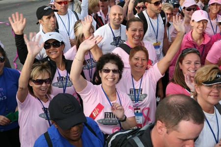 Breast Cancer Walk for the Princess Margaret Hospital Foundation. - MDA.Y